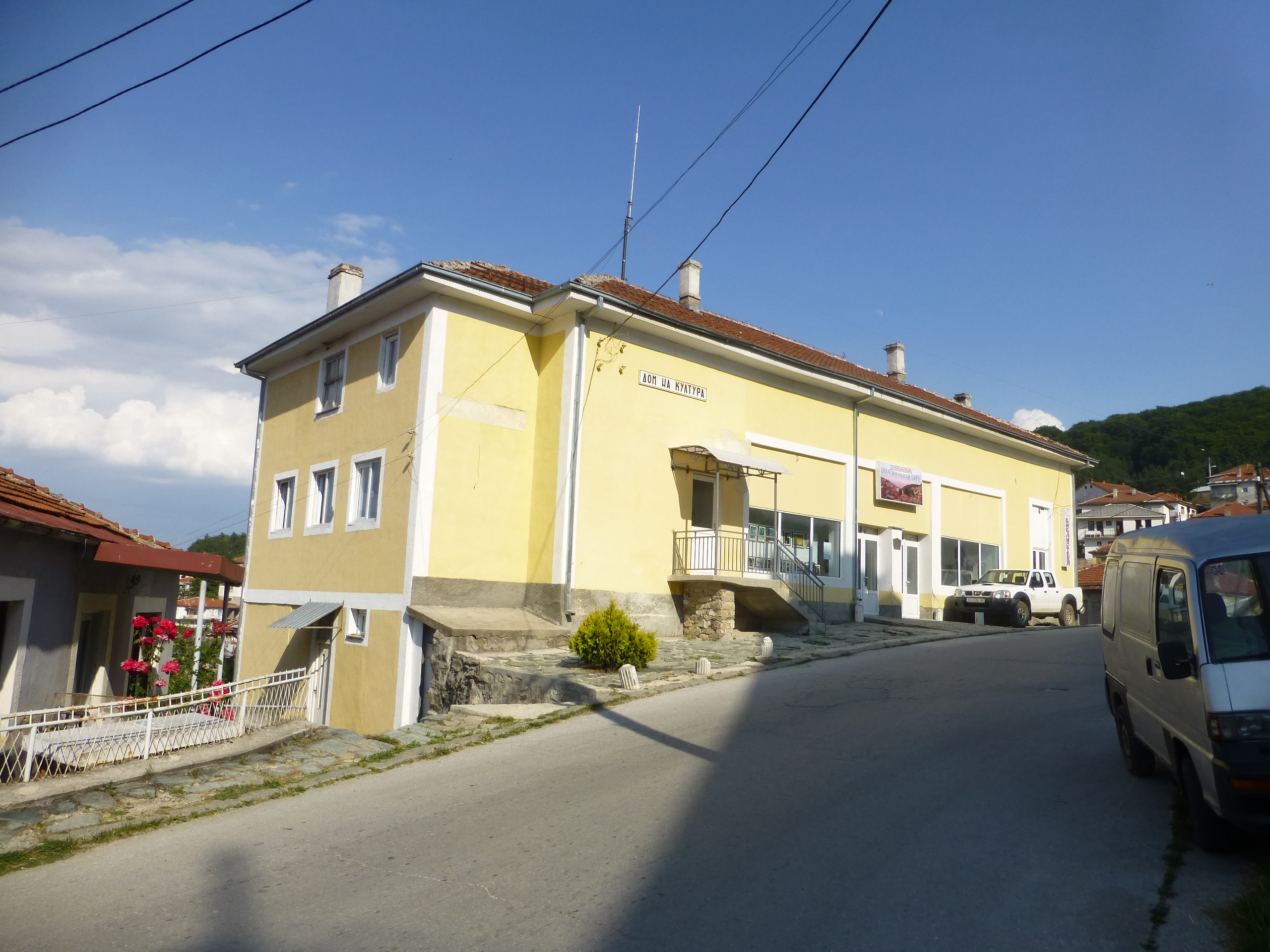 Kruševo